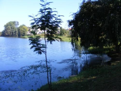 Laguna lo Mendez